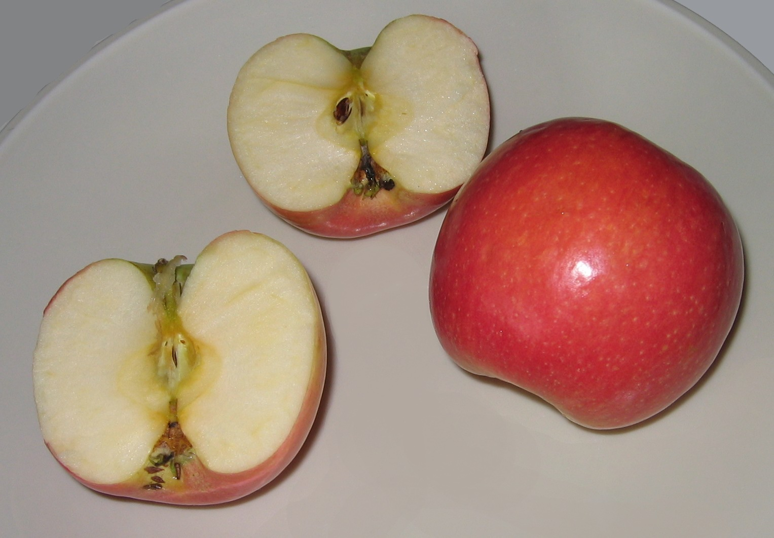 Pink Lady Apple